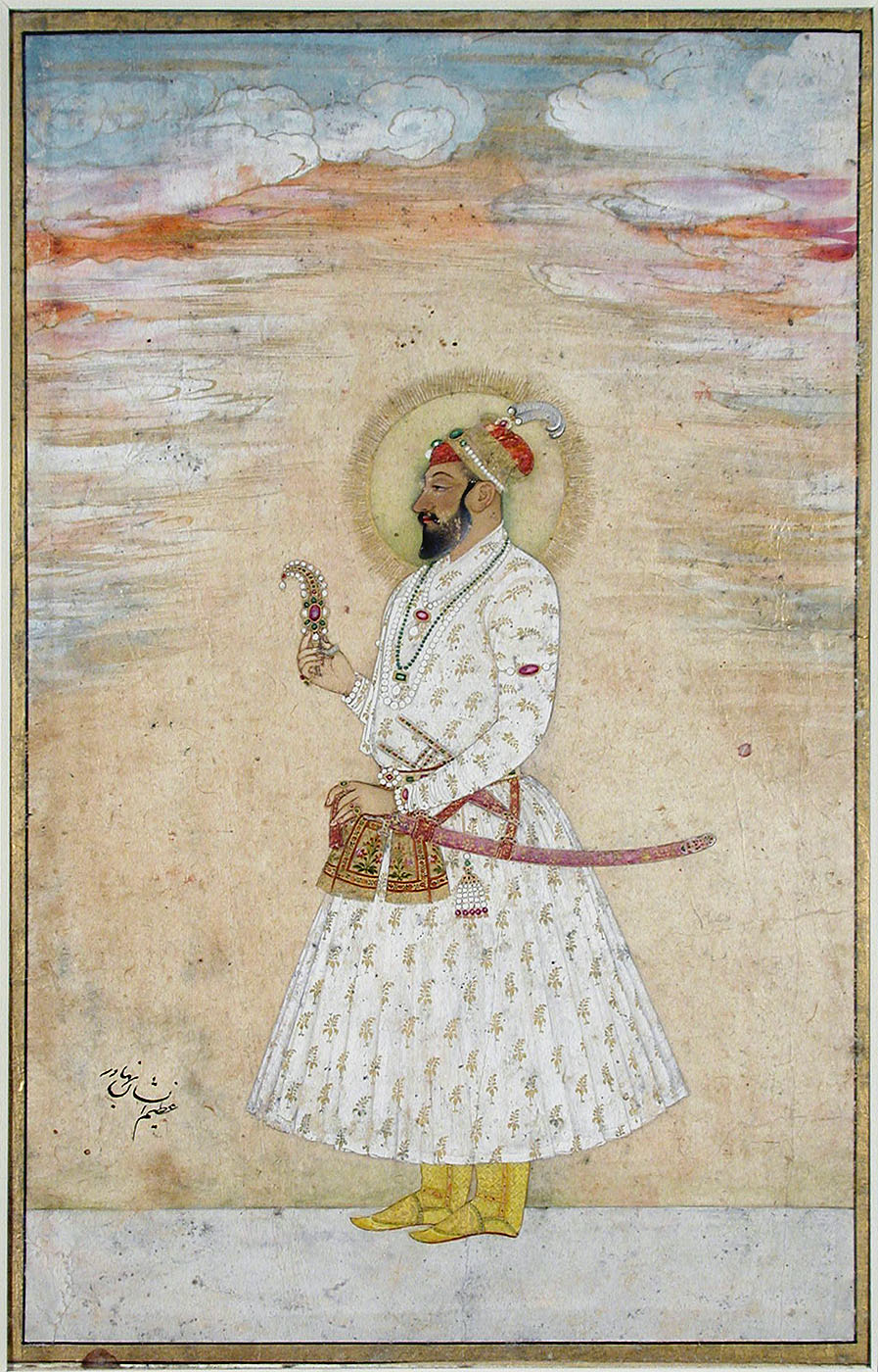 Azim us-Shan Bahadur